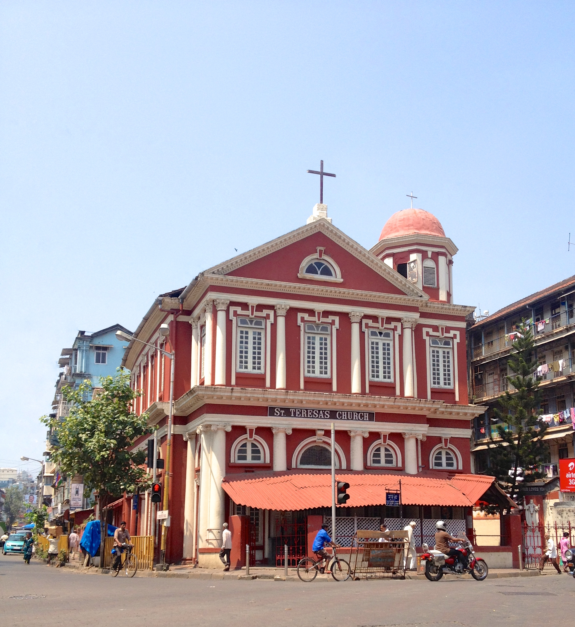 Facade of the St. Theresa's Church in Girgaum, Mumbai.